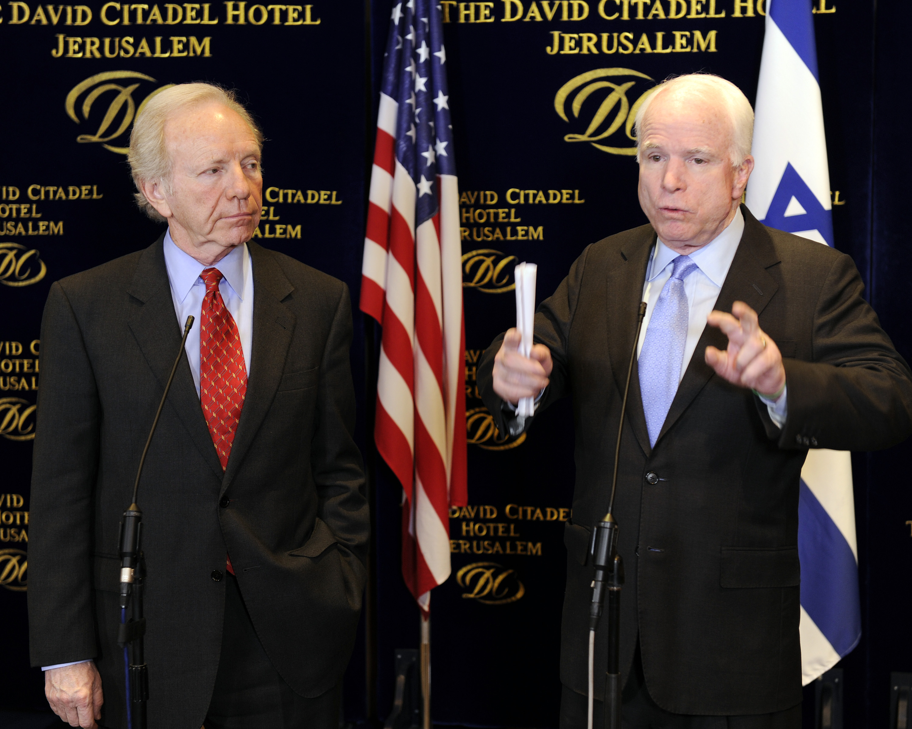 U.S. Senators John McCain (R-AZ), and Joseph Lieberman (I-CN), hold a press conference given in Jerusalem on February 25, 2011. [State Department photo/ Public Domain]